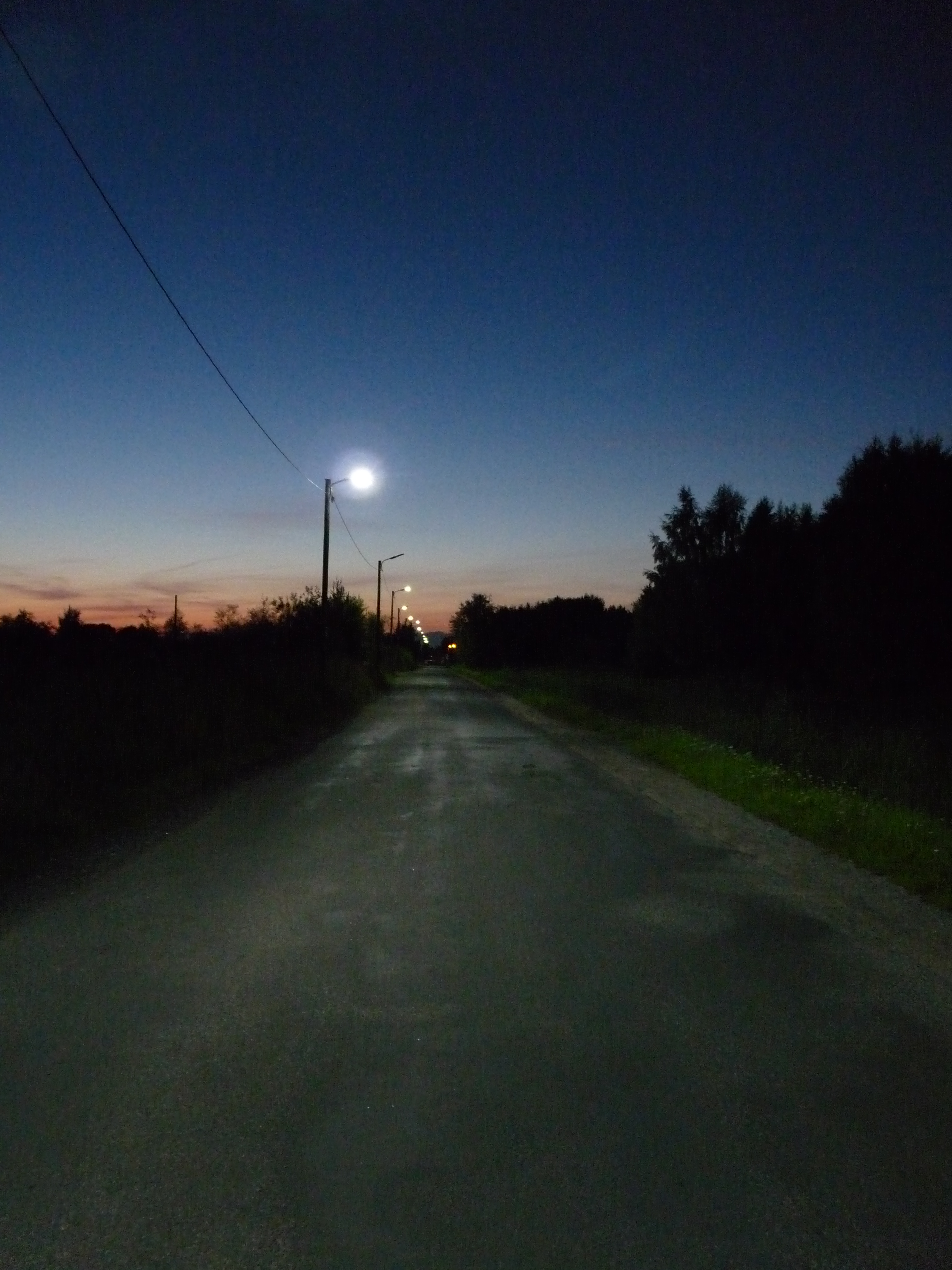 Pelguranna street lighted by LED streetlamps in Tallinn, Estonia.